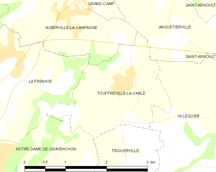 Map of French municipality Touffreville-la-Cable